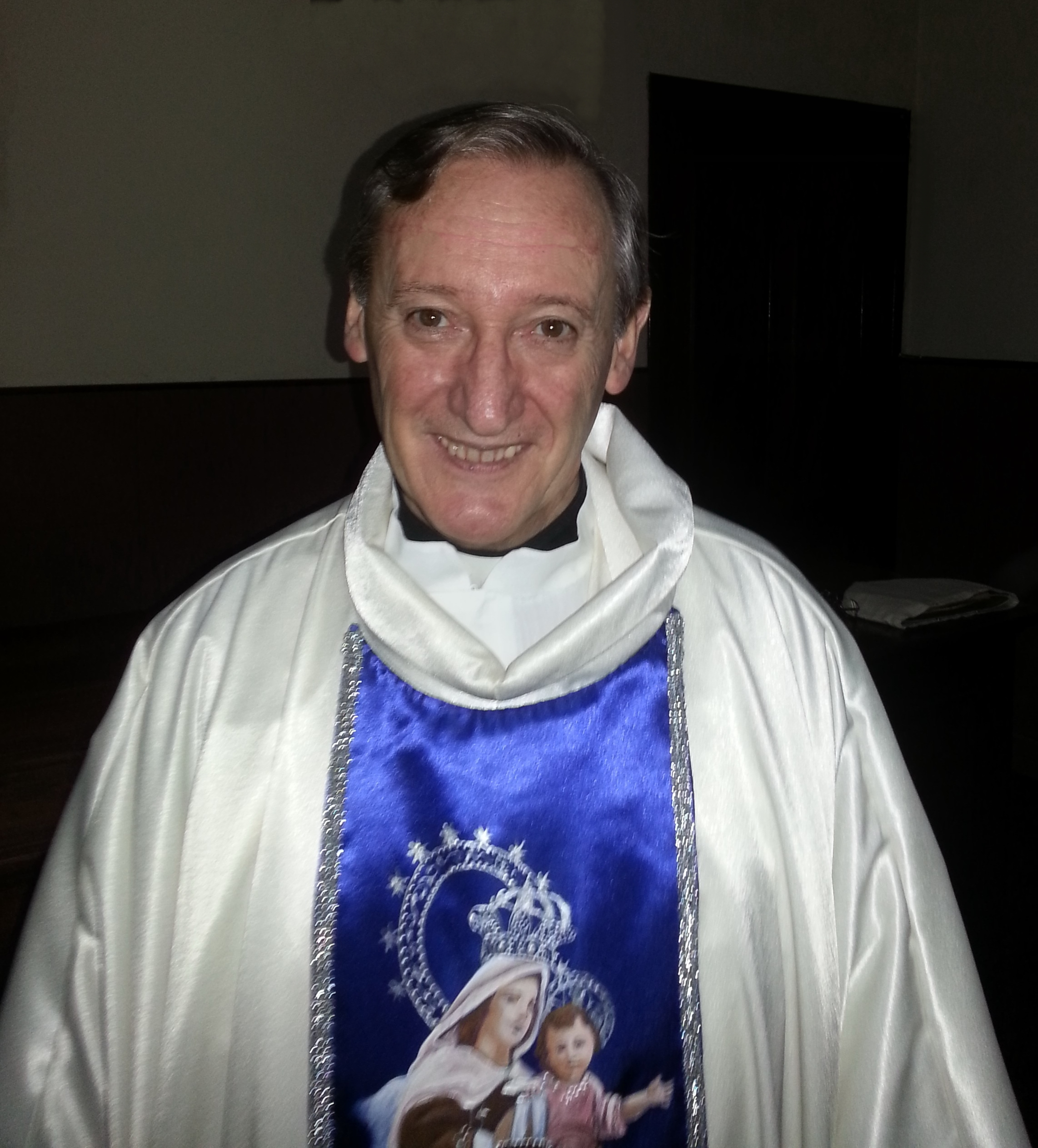 Joaquín Mariano Sucunza. Auxiliary Bishop, Vicar general of the Roman Catholic Archdiocese of Buenos Aires. Titular Bishop of Saetabis.